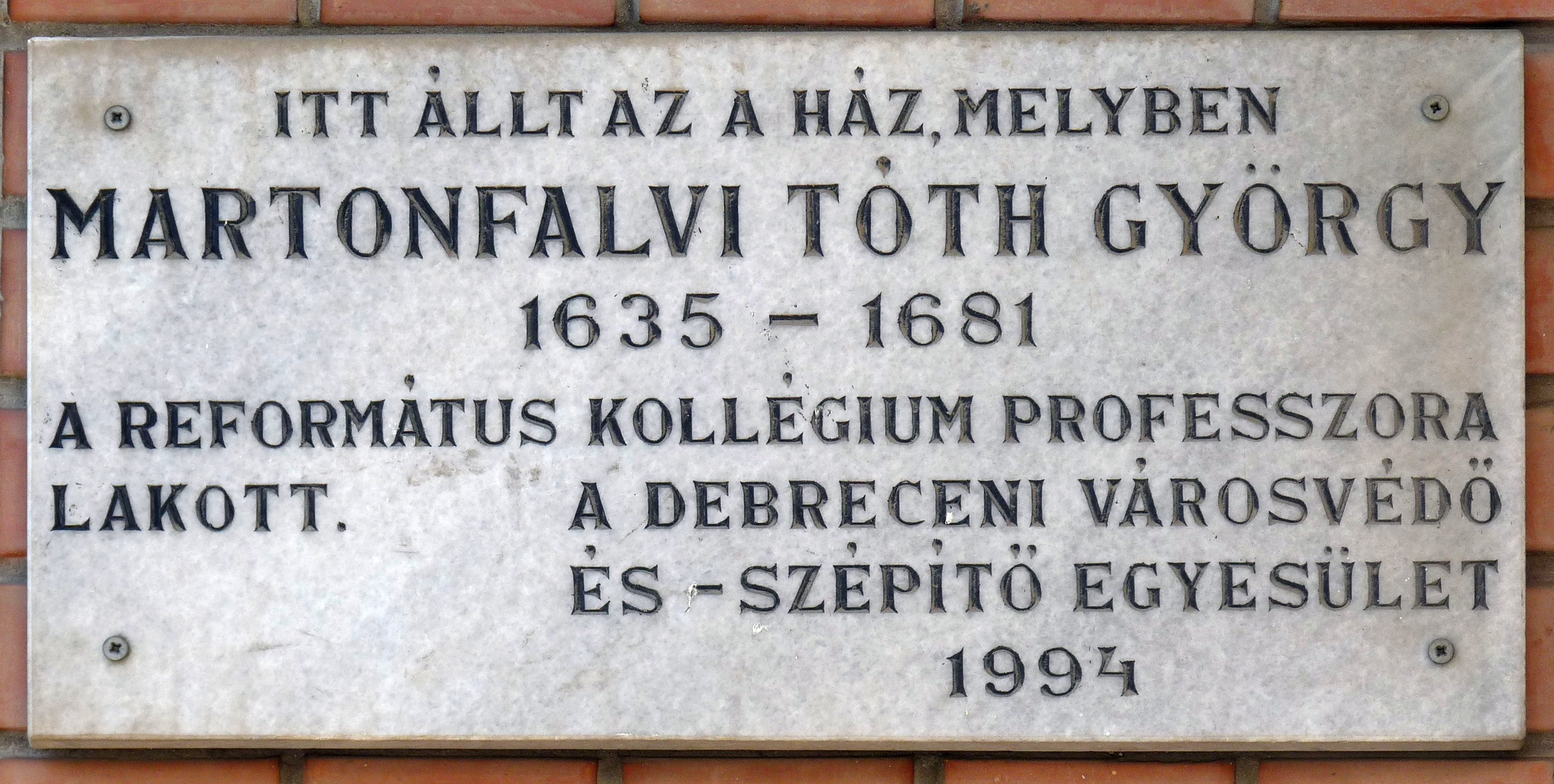 Commemorative plaque to Mr. György Martonfalvi Tóth (1635–1681) professor of the Reformed College of Debrecen (Hungary), affixed to the wall of the building erected on the site where was his house. (Debrecen, Vár Street Nr 2)